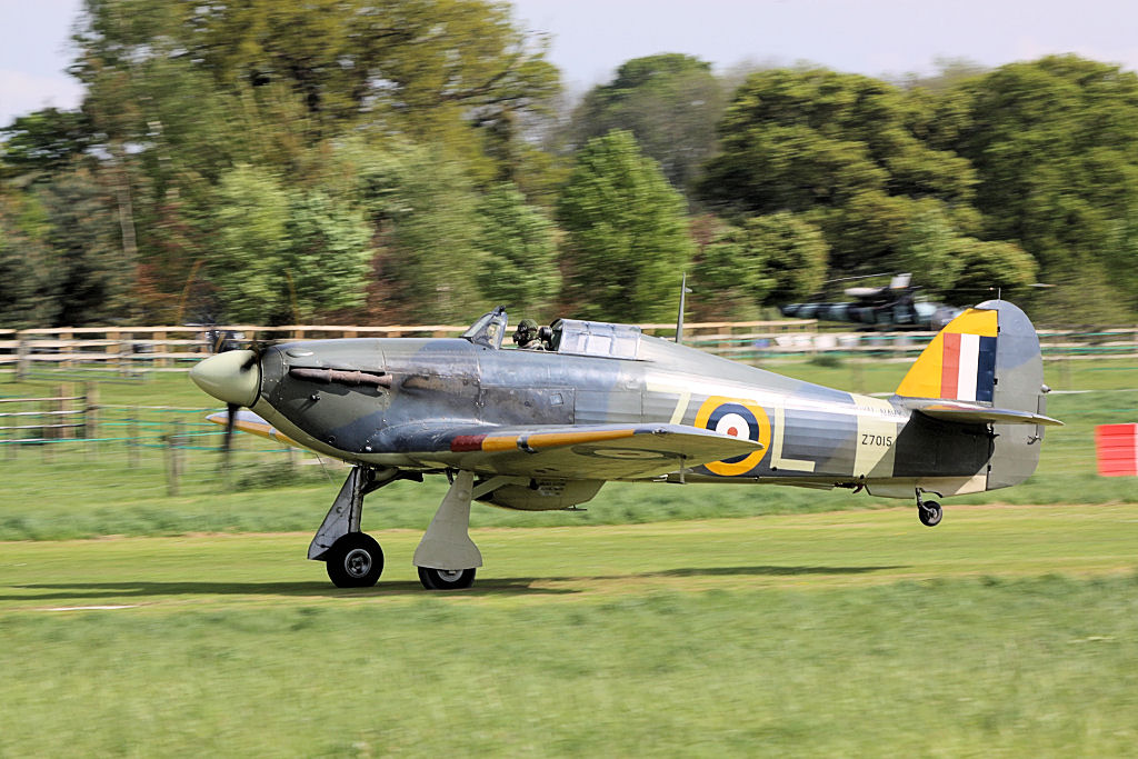 Sea Hurricane - Shuttleworth Spring Airshow 2009